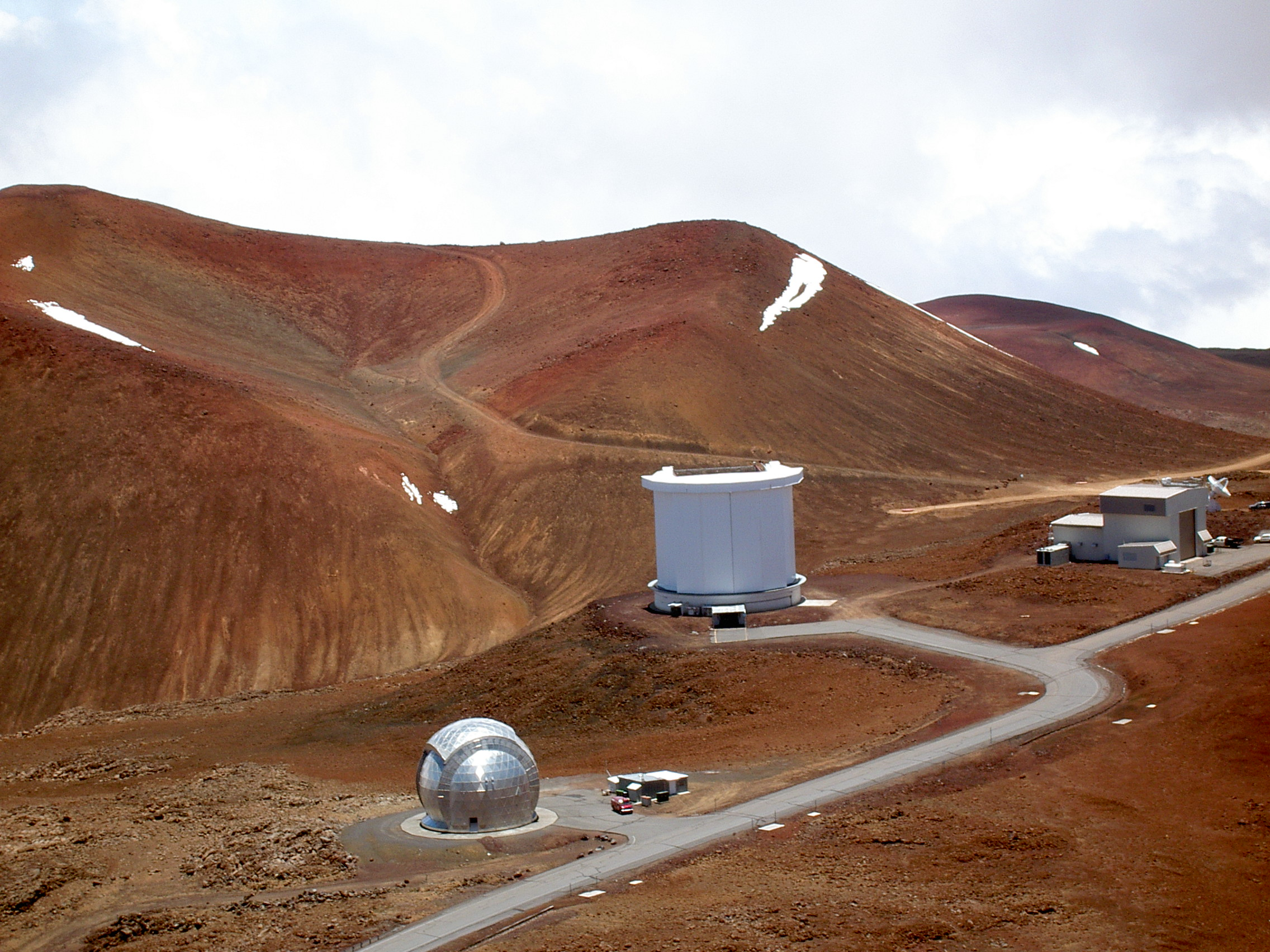 Photograph of the James Clerk Maxwell Telescope on Mauna Kea, Hawaii (centre). To the left is the Caltech Submillimeter Observatory, and to the right is the Smithsonian Submillimeter Array.